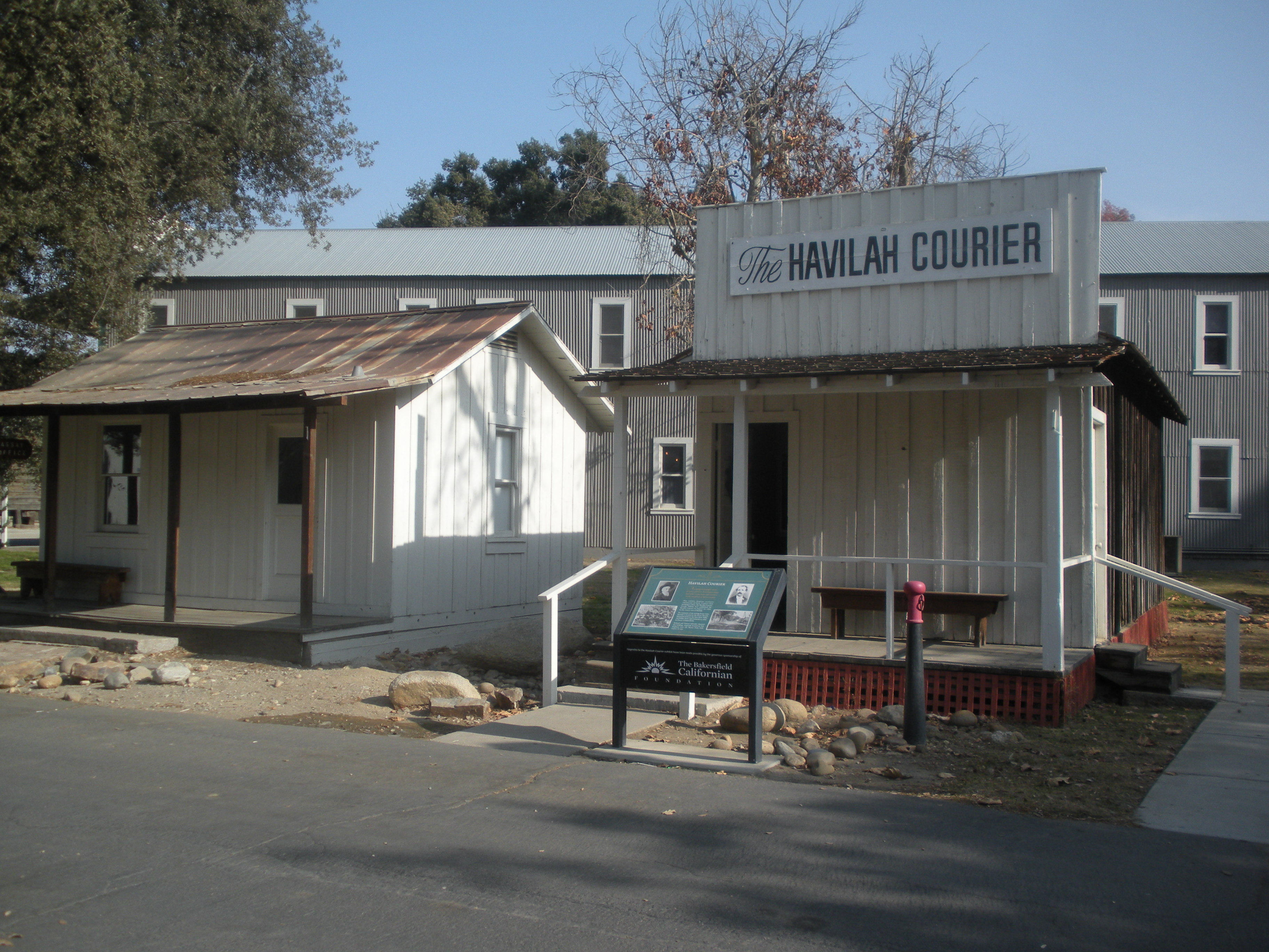 This is the former Havilah Courier building, now located at the Kern County Museum. Originally posted to my Flickr